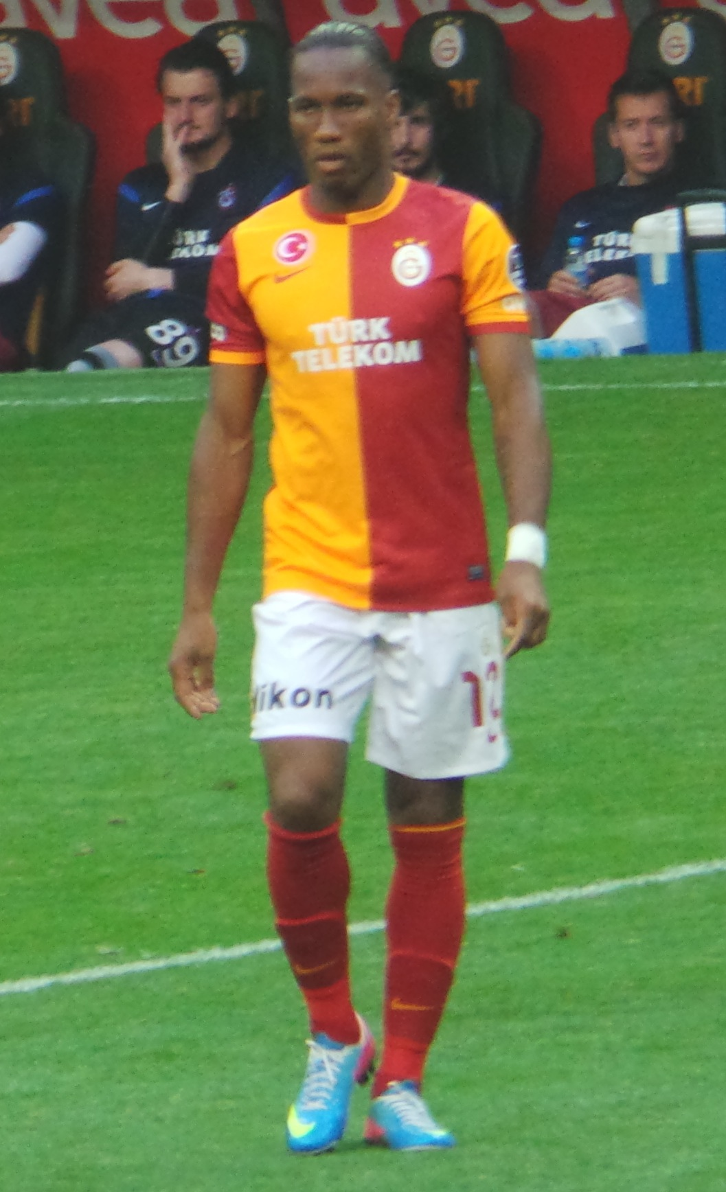 Drogba with GS